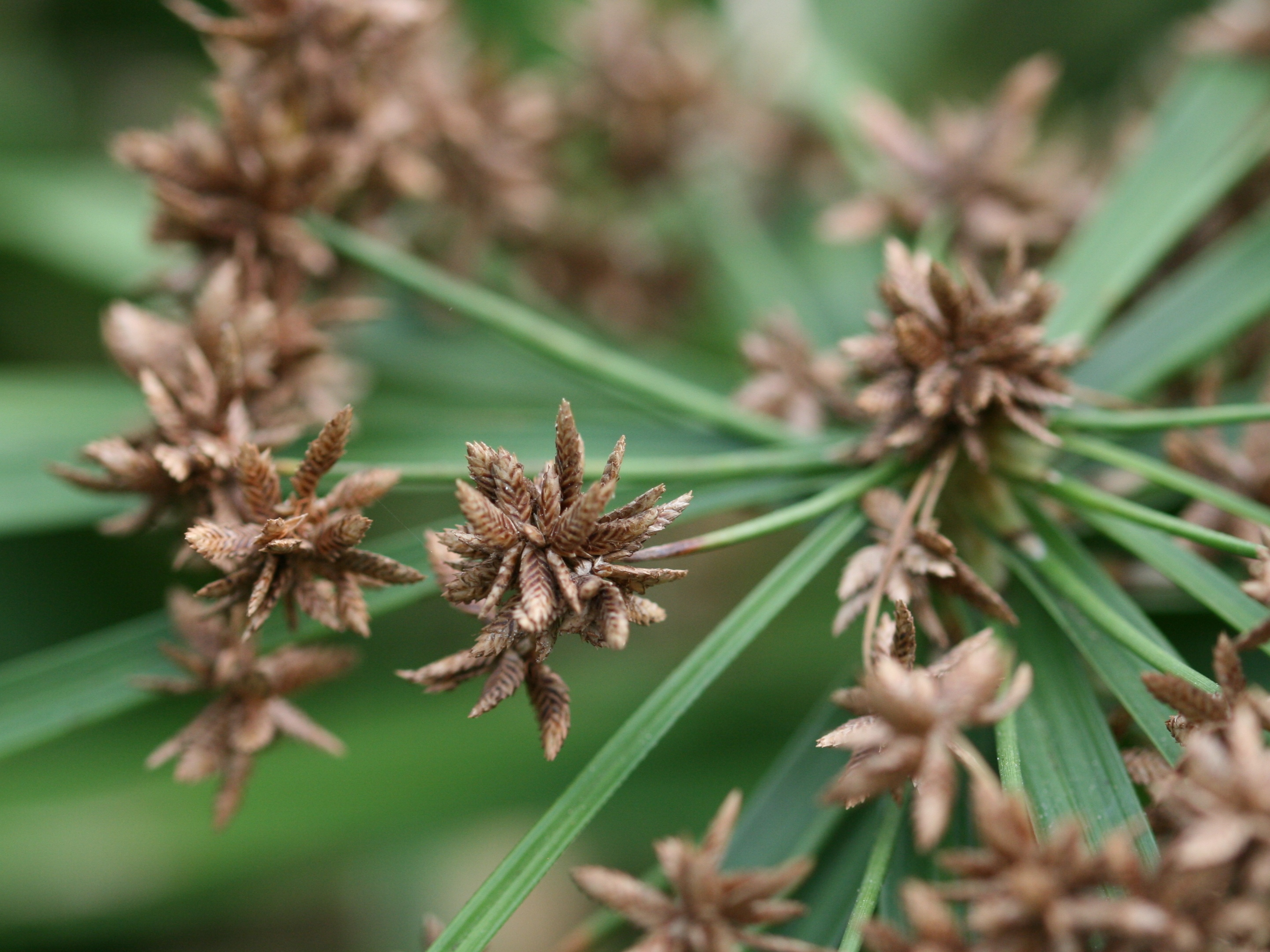 Cyperus alternifolius, Landscape plants of the UAE, Monocotyledonous flower